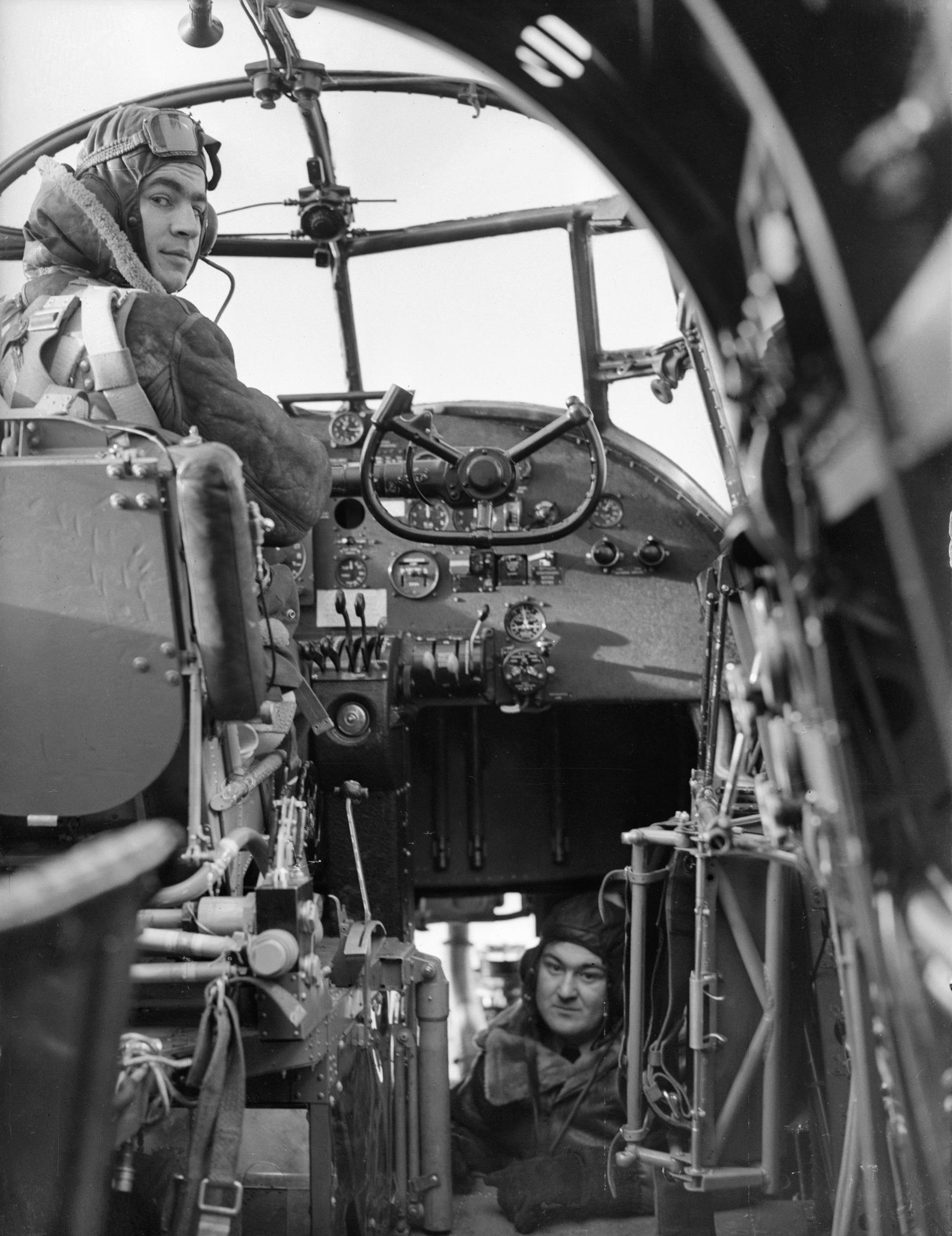 Royal Air Force Bomber Command, 1939-1941. Interior view of the cockpit of an Avro Manchester Mark I, L7288 'EM-H', of No. 207 Squadron RAF at Waddington, Lincolnshire, showing the captain, Flying Officer P Burton-Giles seated at the controls, and the bomb aimer leaving his seat in the nose section.